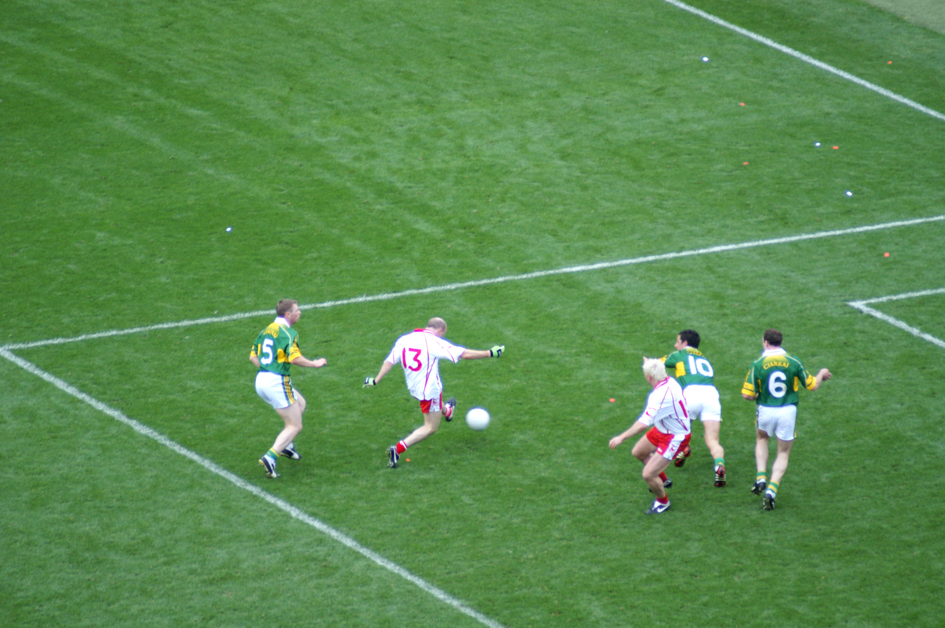 Peter Canavan scoring Tyrone's winning goal in the 2005 All-Ireland Final